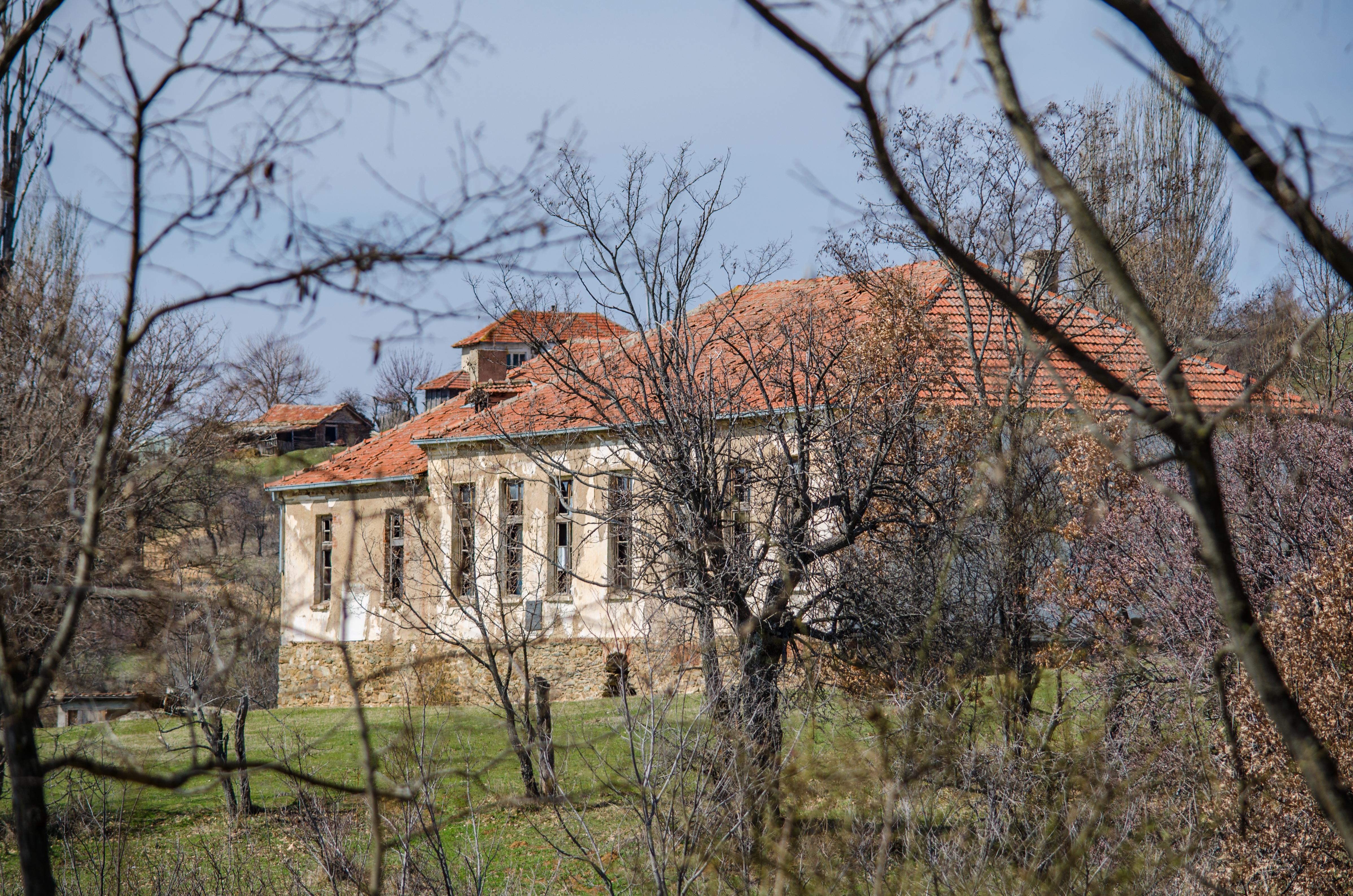 Old school in Žegljane, Macedonia